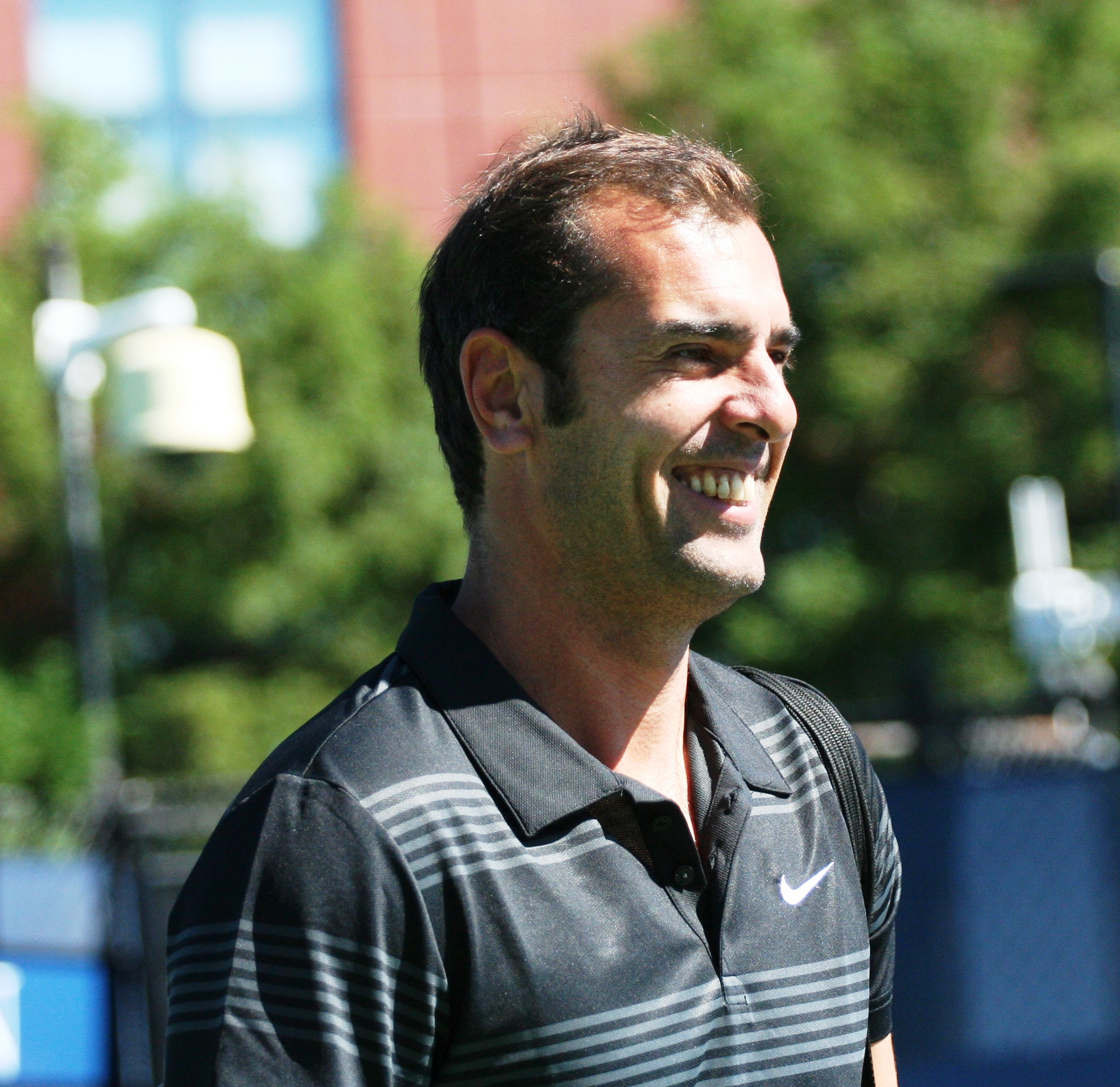 U.S. Open Champions Team Tennis Saturday, Sept. 11, 2010